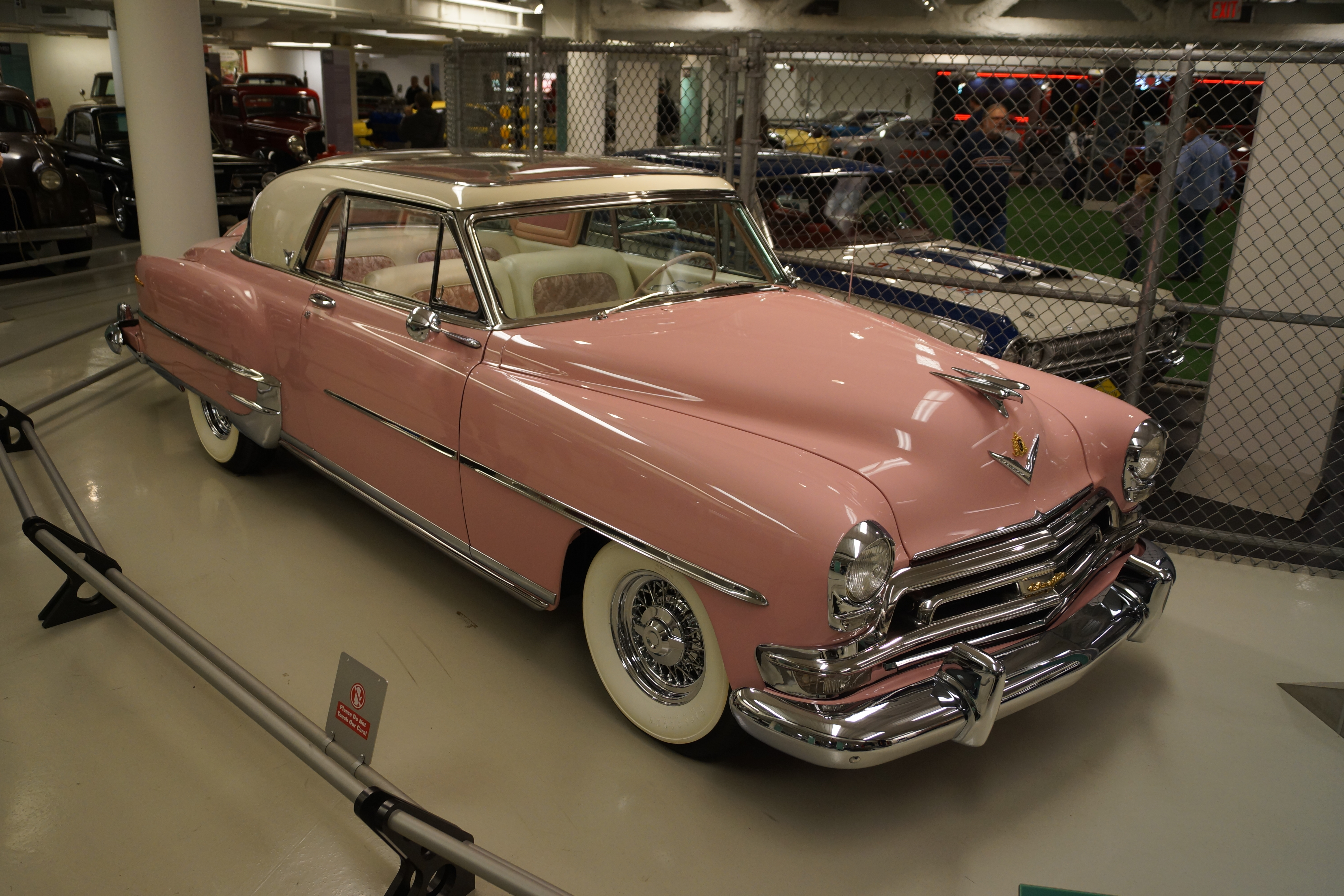 Click here for more car pictures at my Flickr site. Or here for my Car Crazy Tumblr site. Back on November 4th, Hemming's Blog posted an article about the closing of the Walter P. Chrysler Museum . I had missed a couple other opportunities with the WPC Club and others to get into the museum, after it had closed to the public. I did not want to regret missing this last chance to see all of the vehicles before being spread out to other facilities. I trekked from Western Minnesota to Eastern Michigan during Winter Storm Decima. I missed the worst parts of the storm, but still had to endure the aftermath winds, sub zero temperatures and a lake effect snow storm. The trip was difficult, but well worth it. I got to see several Chrysler Corporation concept and show cars that I had only seen pictures of before. There were several clever interactive displays demonstrating various innovations over the years. Since it was the last chance, I duplicated several shots using different camera settings to see what produced better results. I wish I had invested in a strobe light diffuser for all of those indoor pictures. I have not had much experience or success in the past with indoor car images.